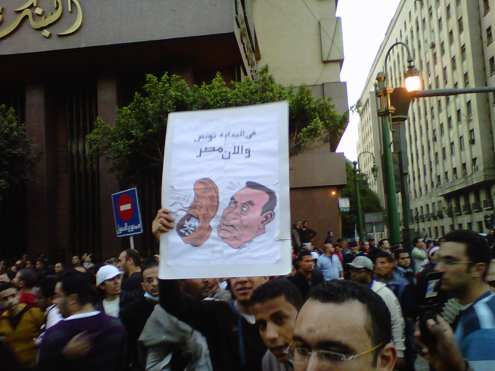 Crowd where a sign with a boot being thrown at Hosni Mubarak is displayed. Author of drawing is Brazilian cartoonist Carlos Latuff (see File:Hosni Mubarak getting the boot.png for original cartoon)